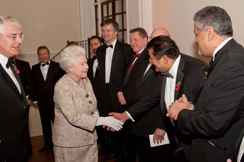 HM The Queen meeting guests